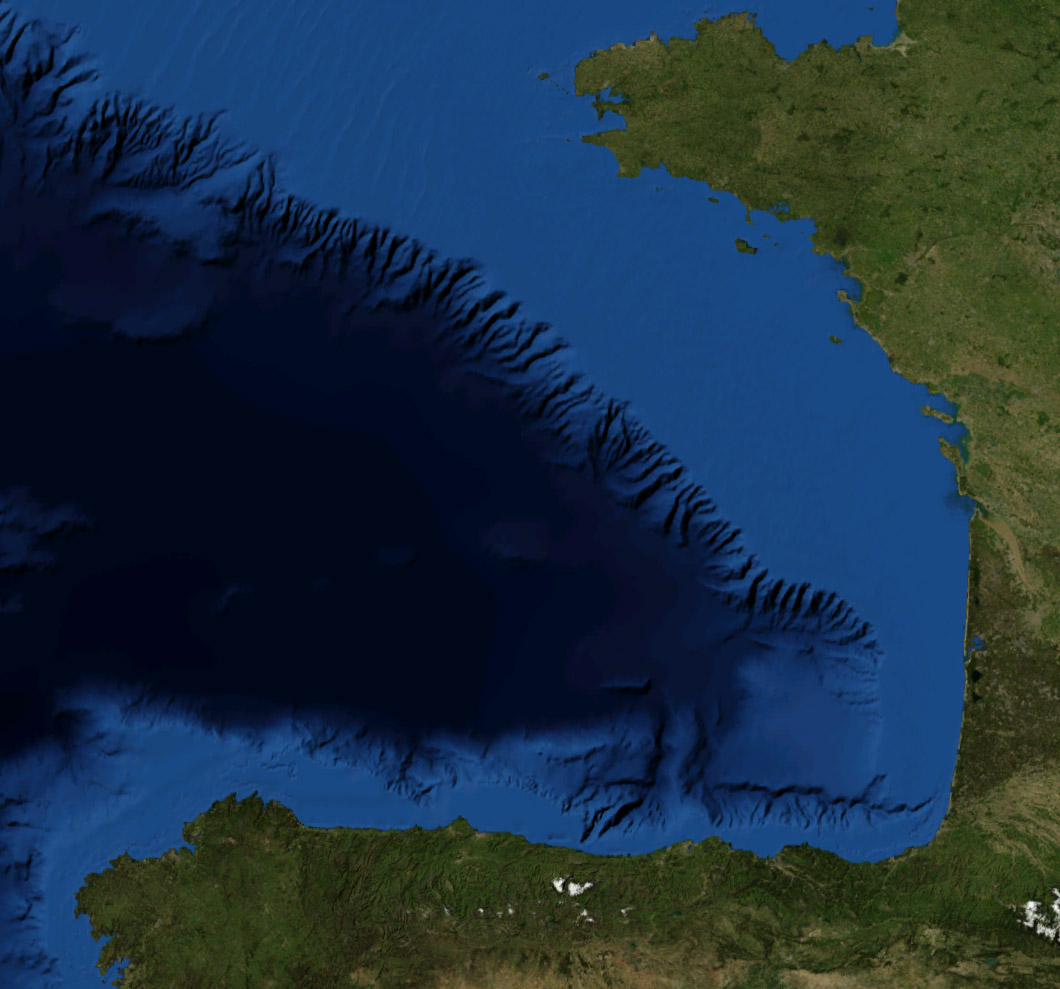 Satellite Picture of the Bay of Biscay